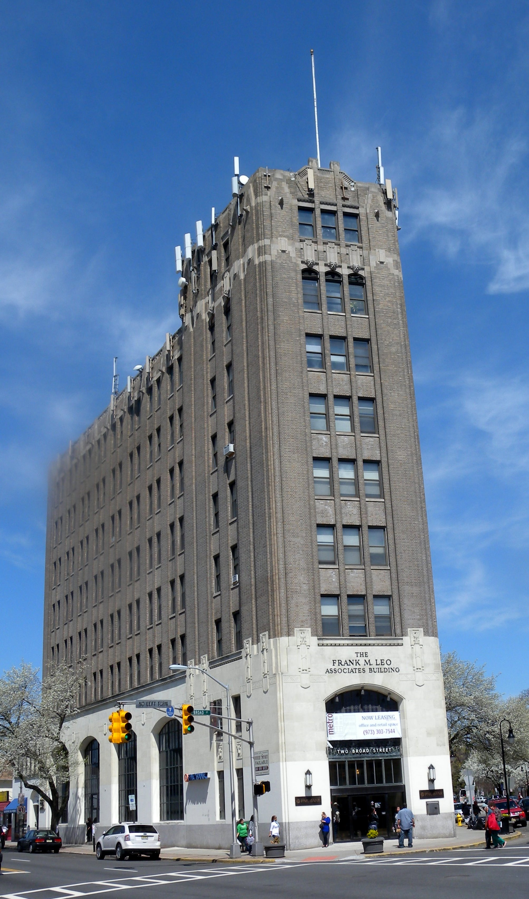 Looking north at Frank M Leo Associates Building on a sunny midday.